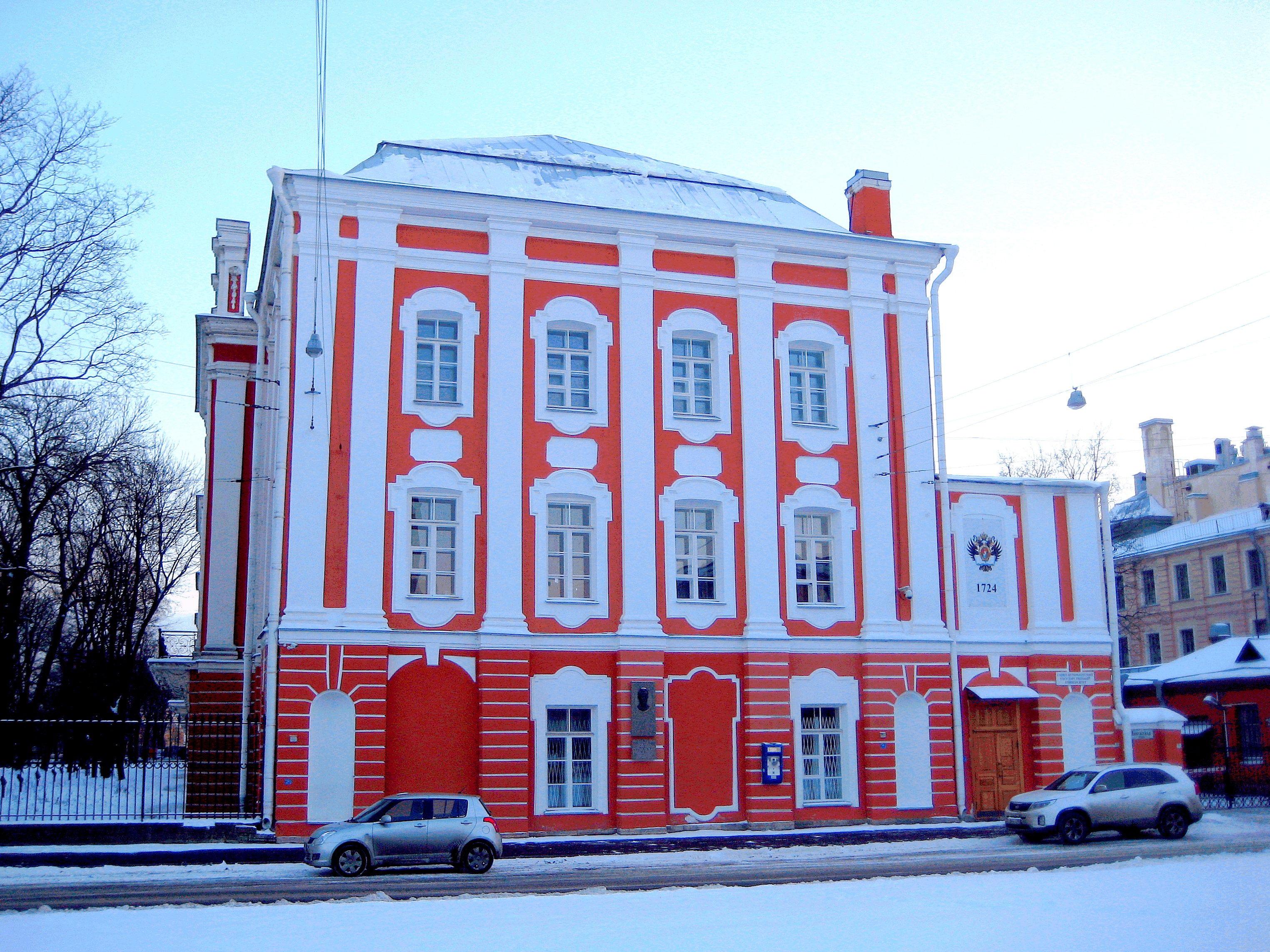 The building of the Twelve Colleges. Facade on the side of Tiflis Street (architect Domenico Trezzini), 1722-1742: Mendeleevskaya line, 2-4. Vasileostrovsky district, St. Petersburg.